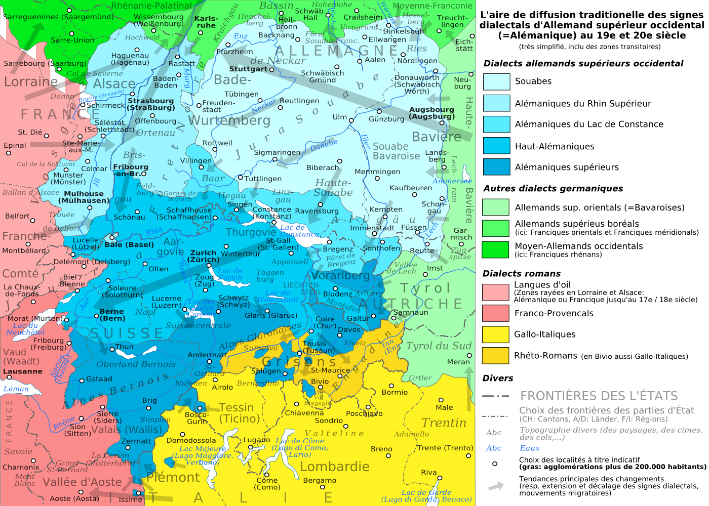 The traditional distribution area of the western upper german (=alemannic) dialects in the 19th and 20th century. Source: Mainly these articles in the german wikipedia: * Alemannische Dialekte * Grenzorte des alemannischen Dialektraums * Traditionell rätoromanischsprachiges Gebiet Graubündens and * Sprachen und Dialekte in der Region Elsass, plus the (younger) literature, which is mentioned there. This area, having been quite stable for at least some 300 years up to the 19th century, saw consecutively more or less strong changes by industrialisation, population growth, migrations and political developments.